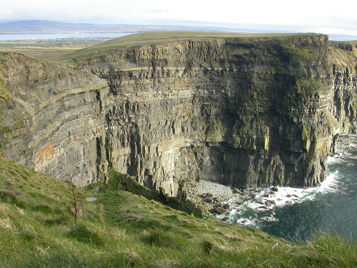 Cliffs of Moher, East, Ireland